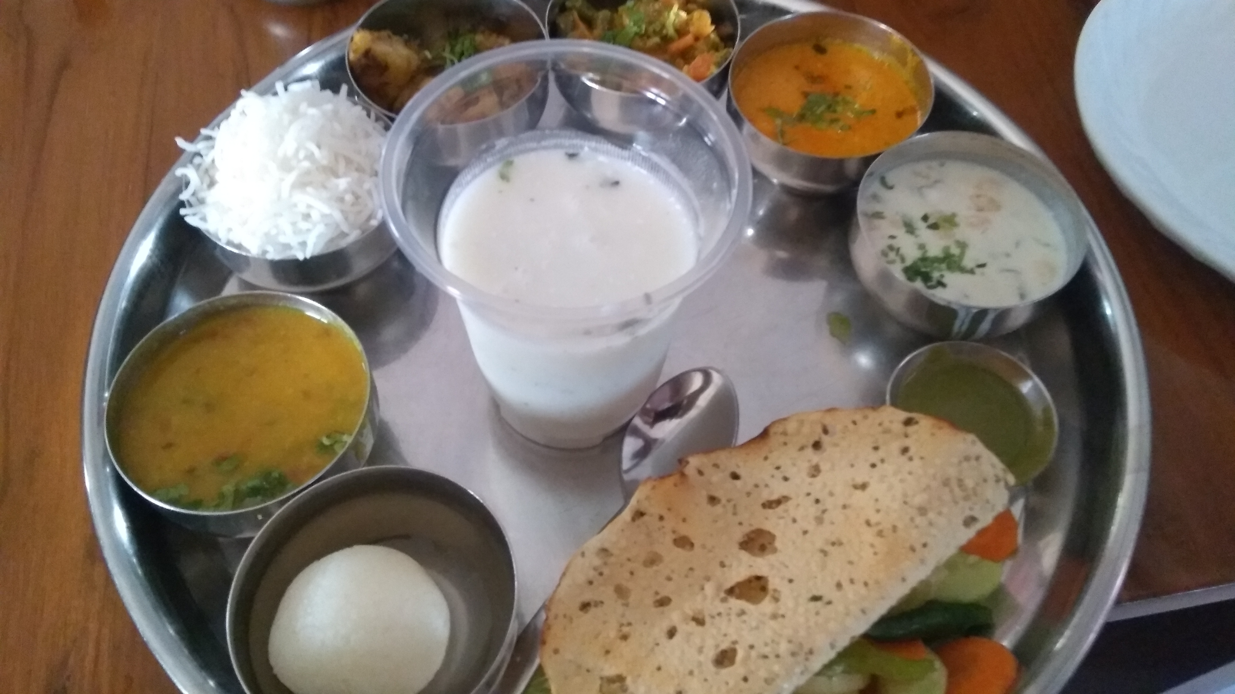 Marwadi thali, served in Delhi, India. Photo by Frederick Noronha (FN). Creative Commons, attribution. +91-9822122436 or fredericknoronha2 at